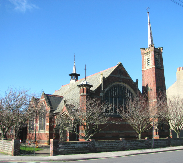 The former South Cliff United Reformed church, now St Nicholas' Roman Catholic Church in Pakefield, Lowestoft, Suffolk